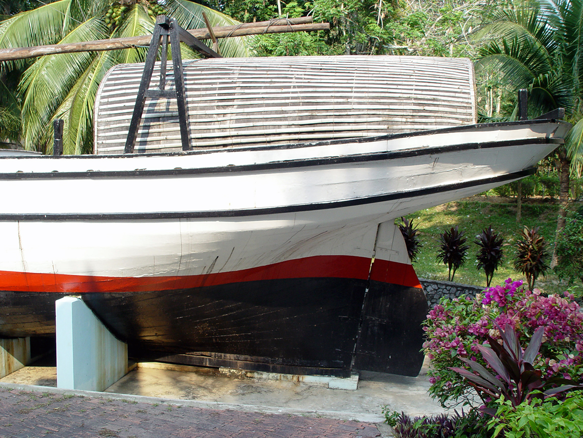 Cabin "cup" of the pinas Sabah in the museum of Kuala Terengganu, 2098